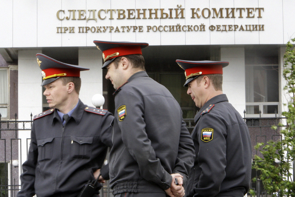 “Investigating Committee under Russian Prosecutor General's Office”. The building of the Investigating Committee under the Russian Prosecutor General's Office in Moscow.